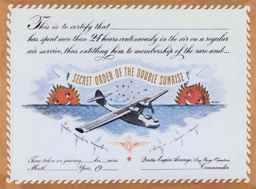 Certificate of "Secret Order of the Double Sunrise" given to passengers who travelled on The Double Sunrise service between Australia and Ceylon (Sri Lanka) during World War II